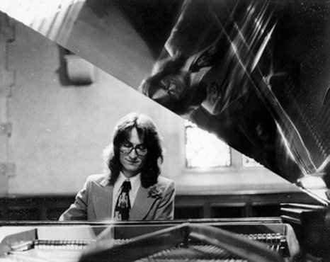 Henry Doktorski; senior piano recital, Park College, Parkville, Missouri, 1978